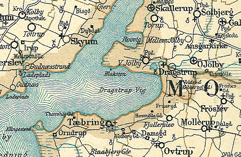 Map of Dragstrup Vig on the island Mors in Thisted County in Denmark